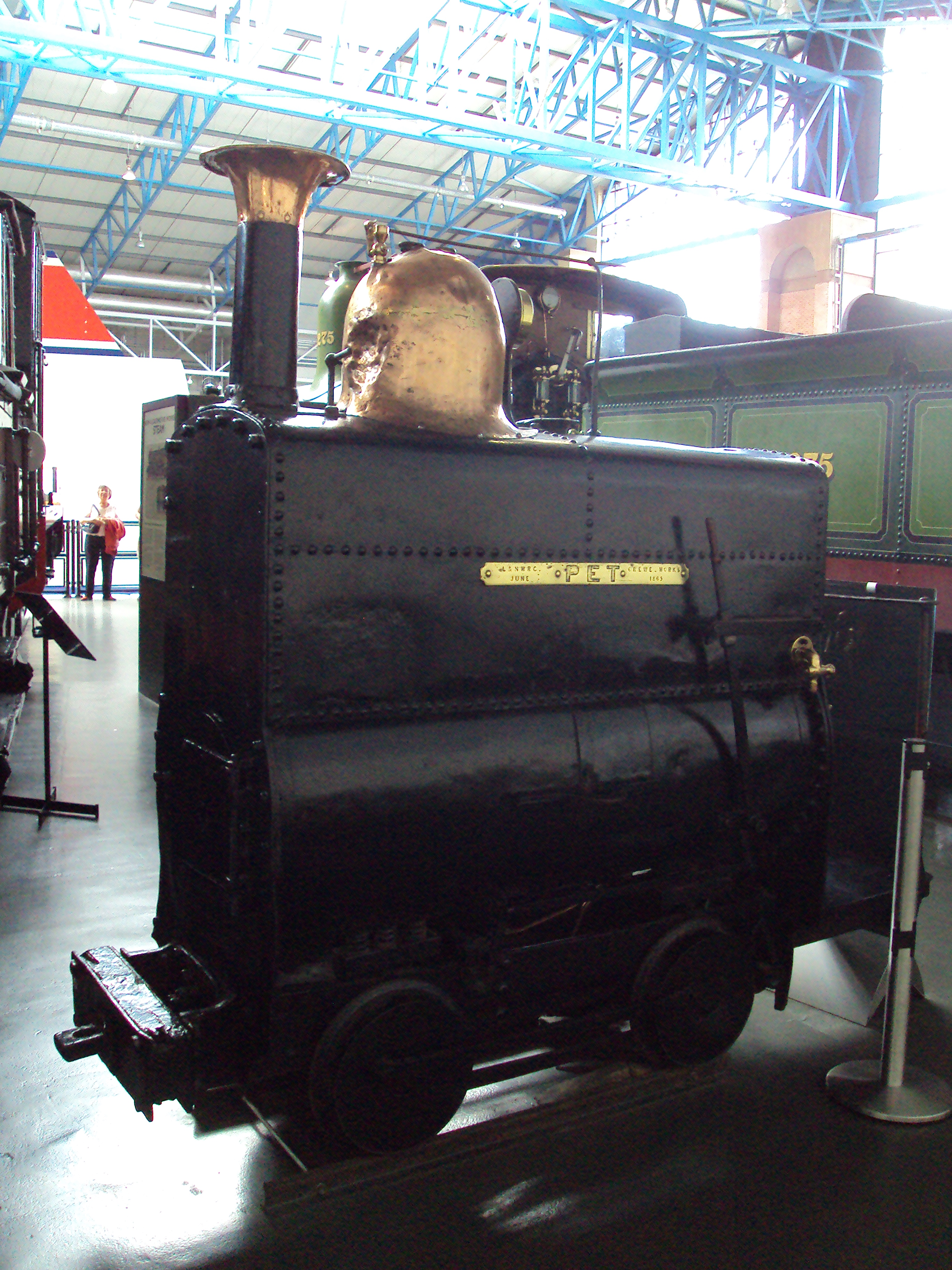 Narrow gauge locomotive PET of the former Crewe Works Railway. Photo taken at the National Railway Museum, York.